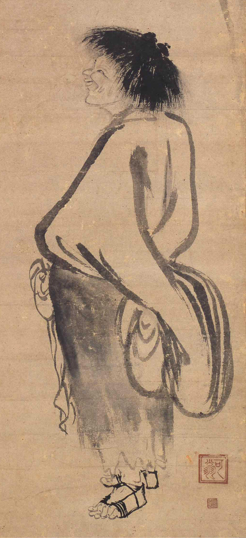 Portrait of Kanzan (Hanshan (紙本墨画寒山図, shihon bokuga kanzanzu). 50 yen stamp of the original hanging scroll, ink on paper. The original scroll has been designated as National Treasure of Japan in the category paintings.